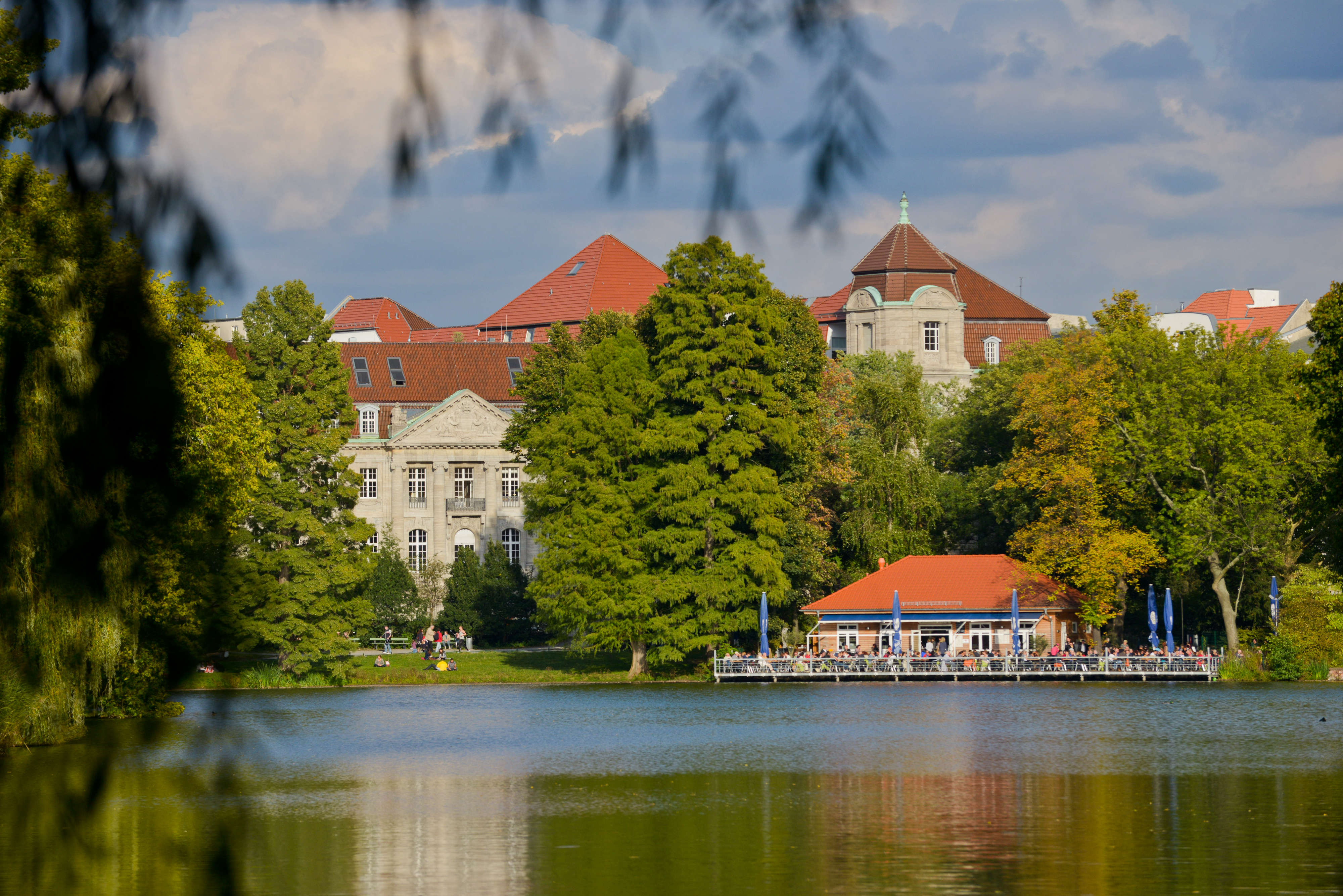 View (from west to east) on Lietzensee in Berlin in early October 2012.